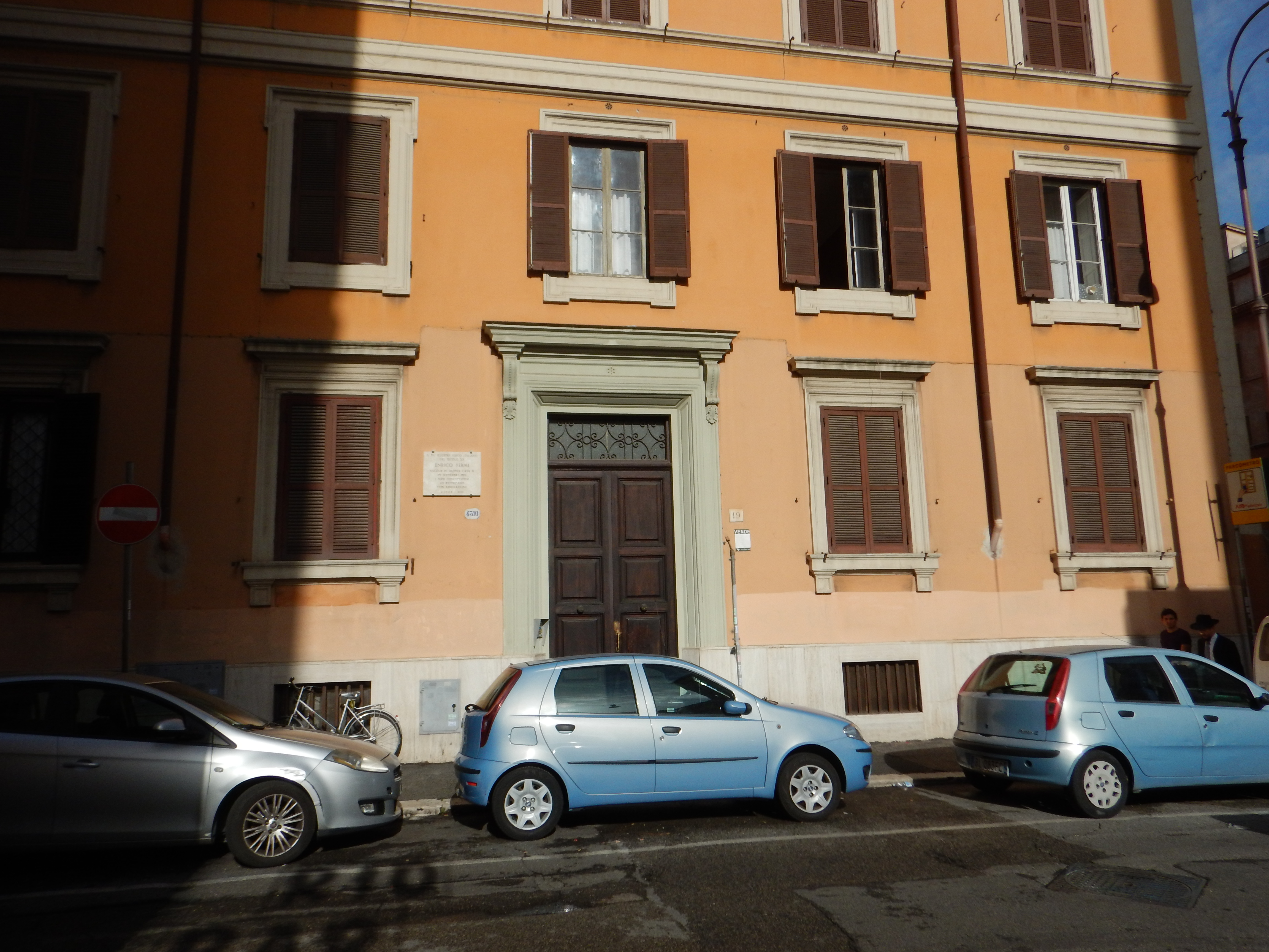 The birth House of Enrico Fermi in Via Gaeta 19, Rome